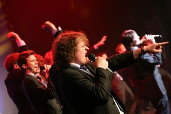 ETJ